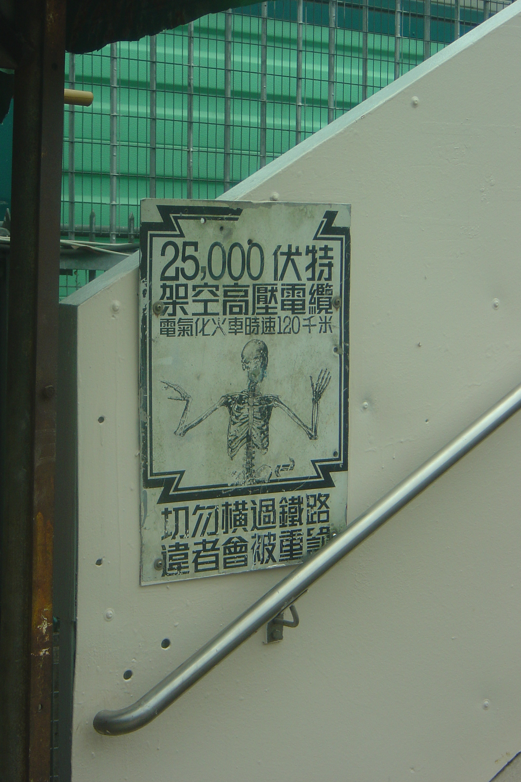 A warning sign of KCR erected at the time electric train service commenced. 繁體